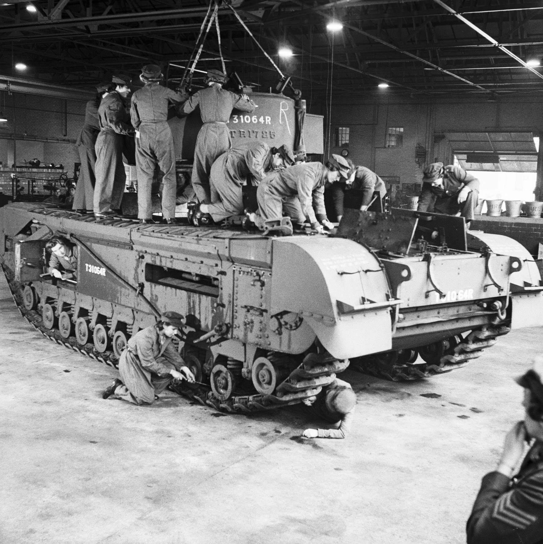 Auxiliary Territorial Service (ATS) women working on a Churchill tank at a Royal Army Ordnance Corps depot, 10 October 1942. The Auxiliary Territorial Service (ATS): ATS working on a Churchill tank at a Royal Army Ordnance Corps Depot. Photograph shows the women guiding the turret into position. Many ATS worked with the newly formed REME on jobs such as this.